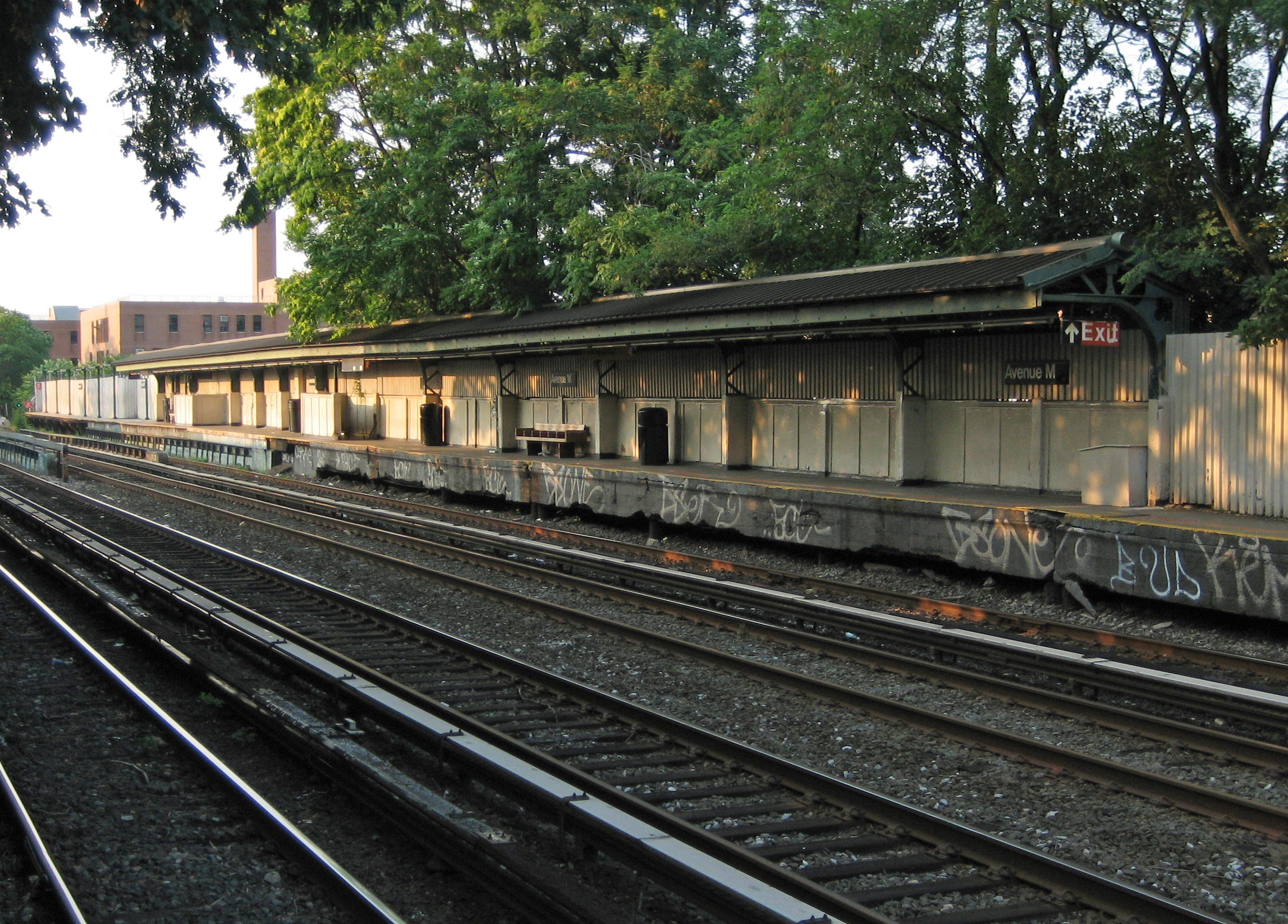 Avenue M station at the BMT Brighton Line, looking north.